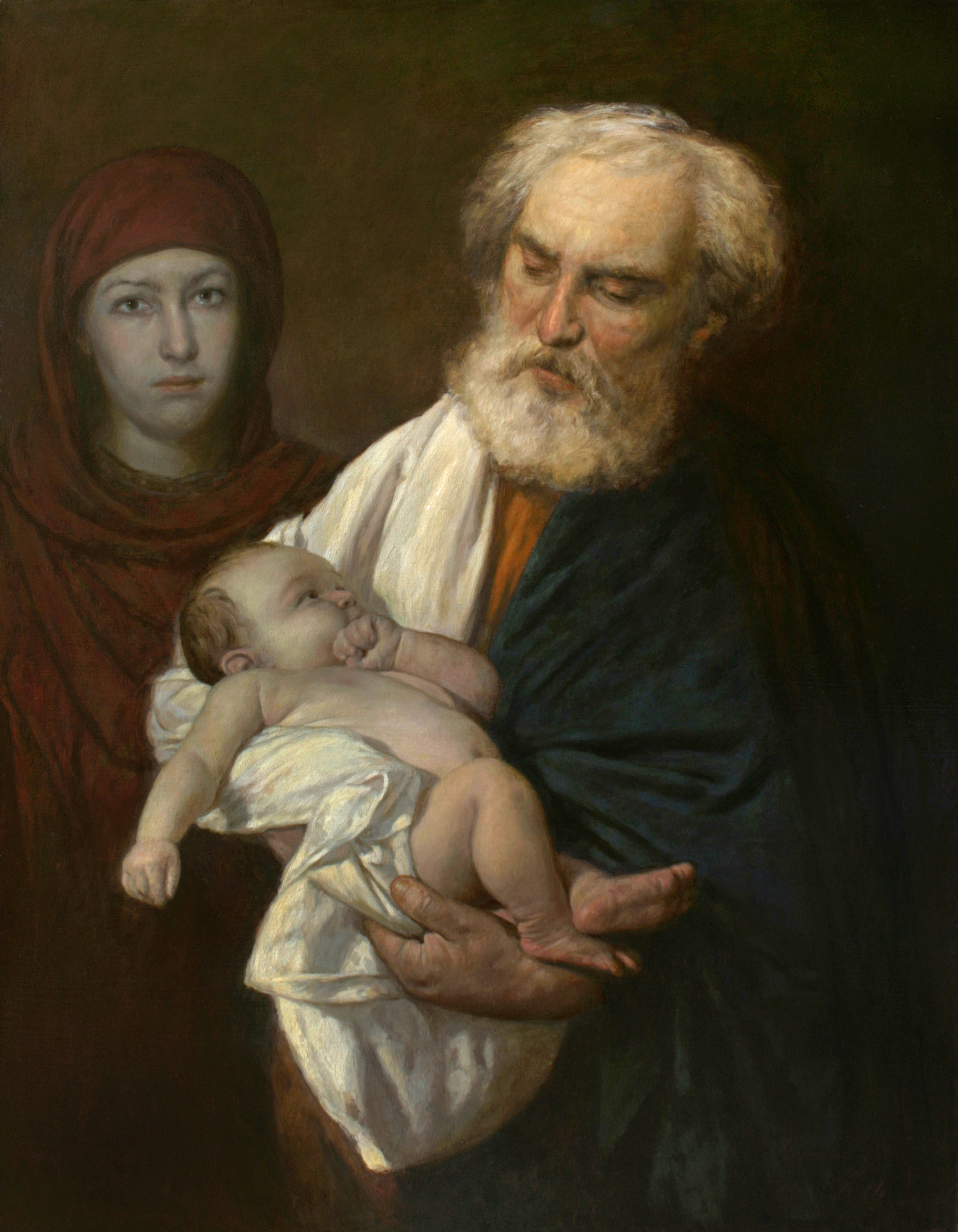 Saint Simeon with the Christ child. 2014. Oil on canvas. 90×70. Artist A.N. Mironov